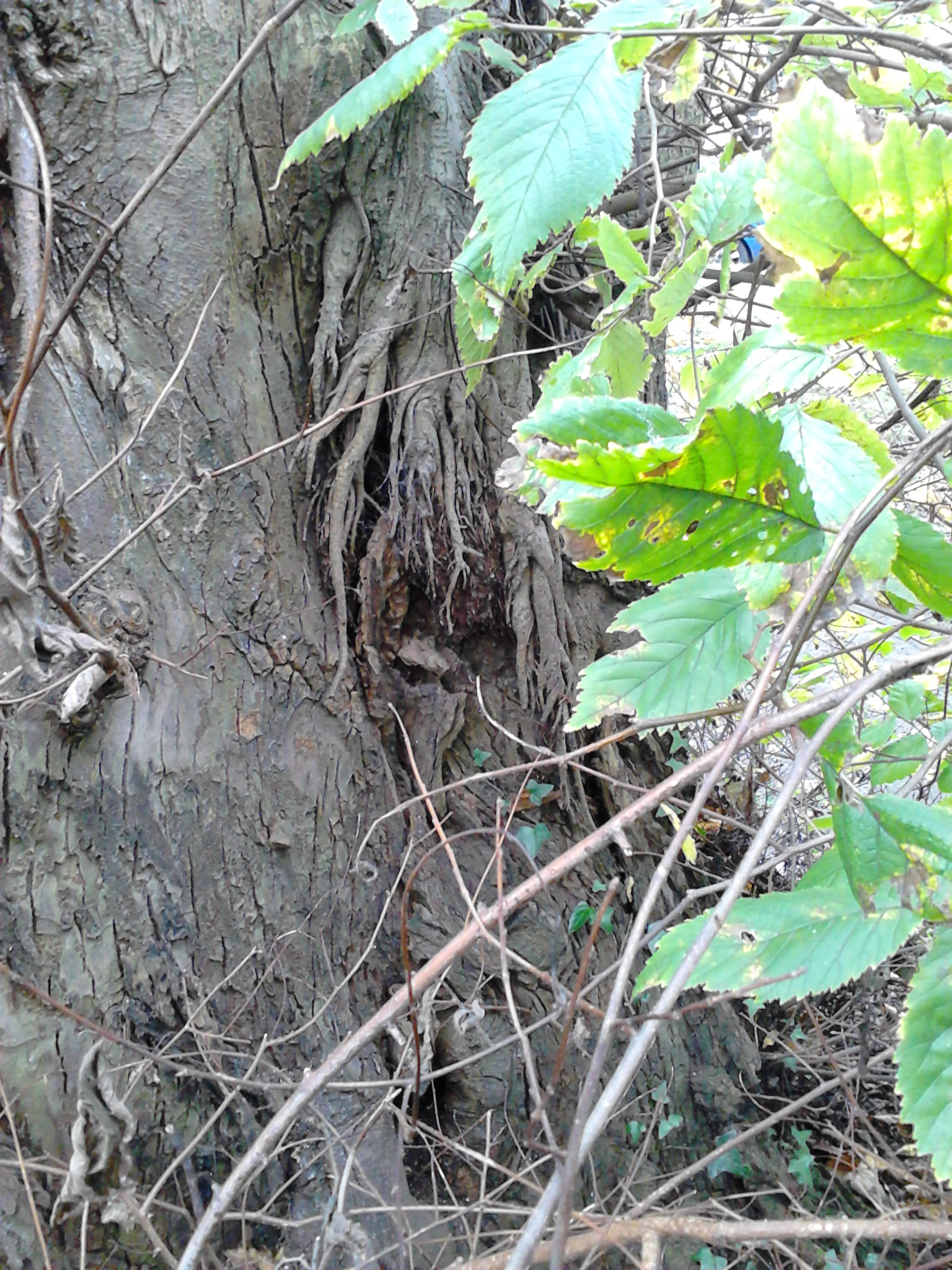 Ulmus (unknown cultivar). Royal Terrace, Edinburgh